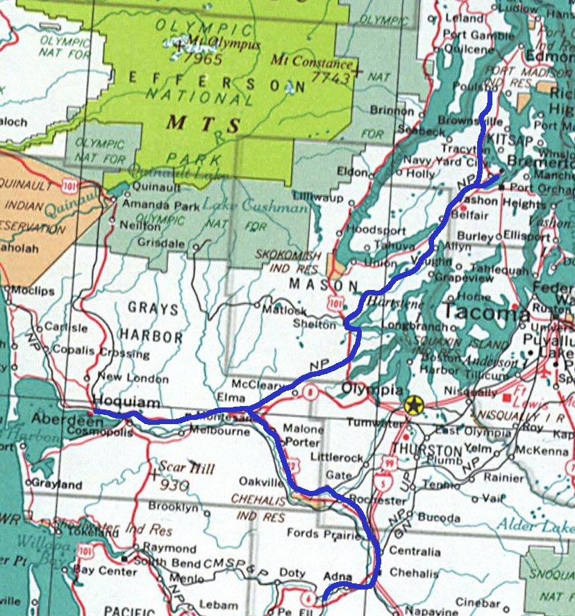 Map of the Puget Sound and Pacific Railroad, based on the Map of the National Atlas 1970